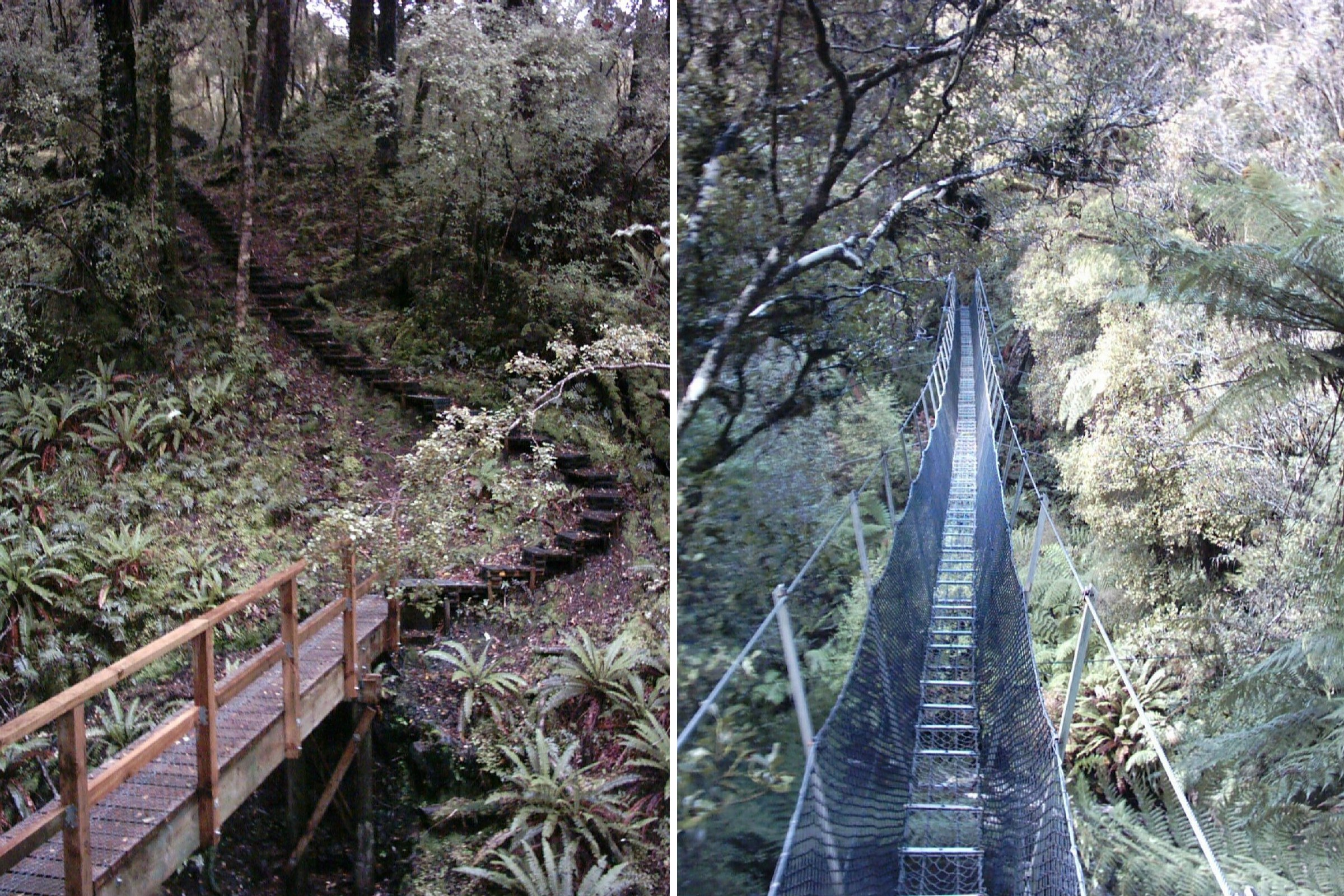 Two sections of the Rakiura Track on Stewart Island, New Zealand. The left shows a typical boardwalk stair covered with netting to prevent slipping on the often very slick surfaces. The right shows one of the handful of suspension bridges encountered on the track.